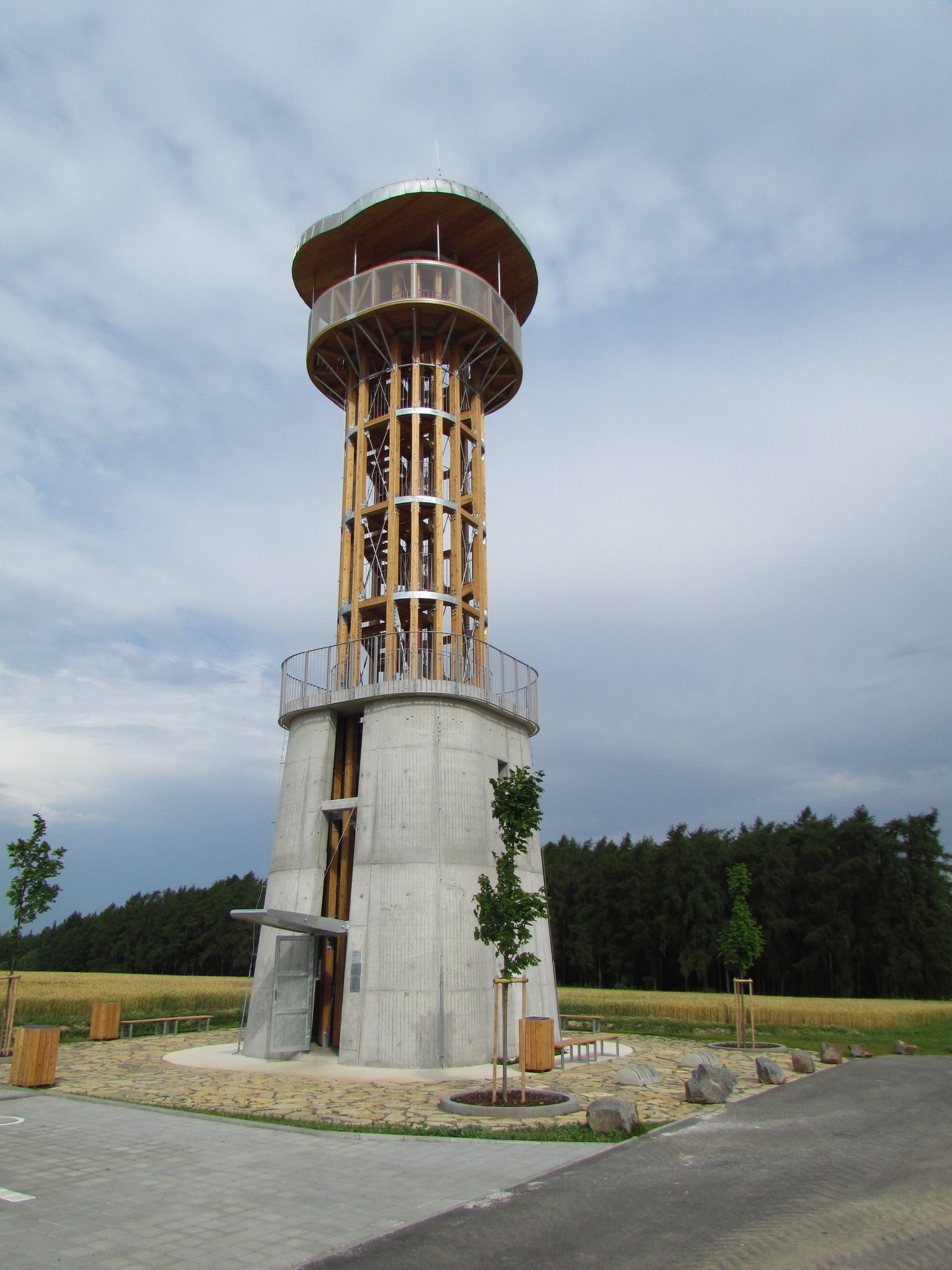 Rozhledna na Senecké hoře u Pavlíkova